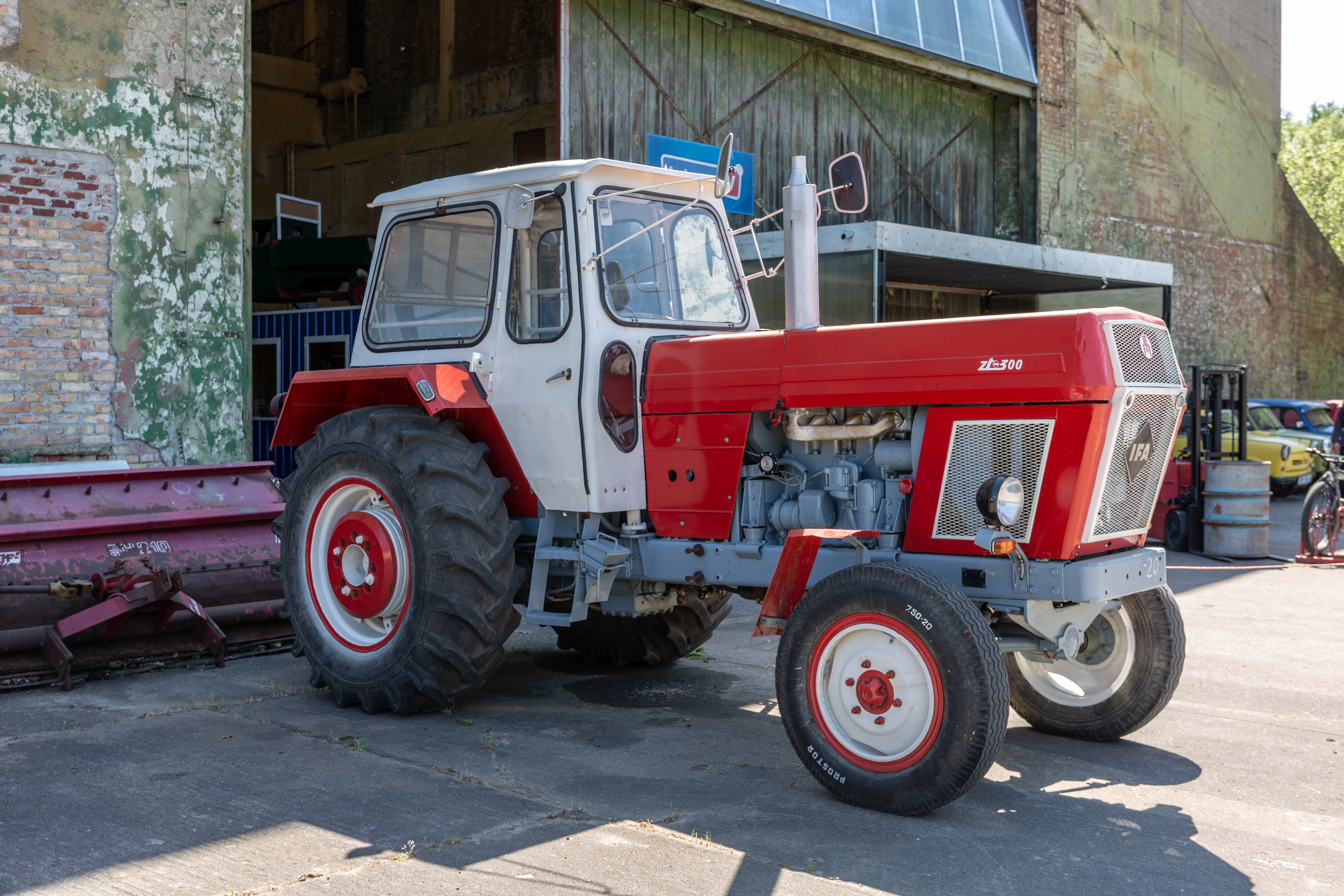 Pfingsttreffen Pütnitz 2018